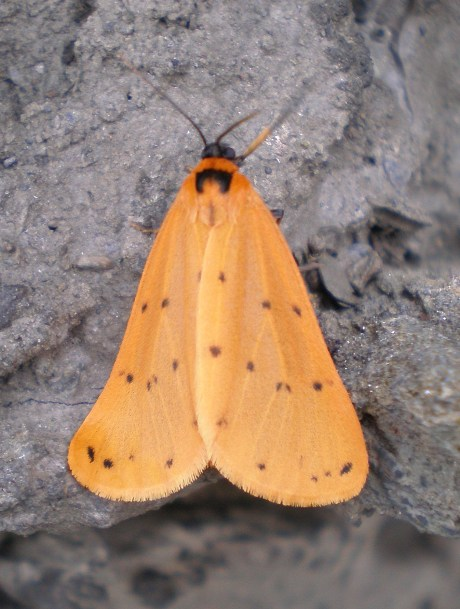 Near Canillo, Andorra.